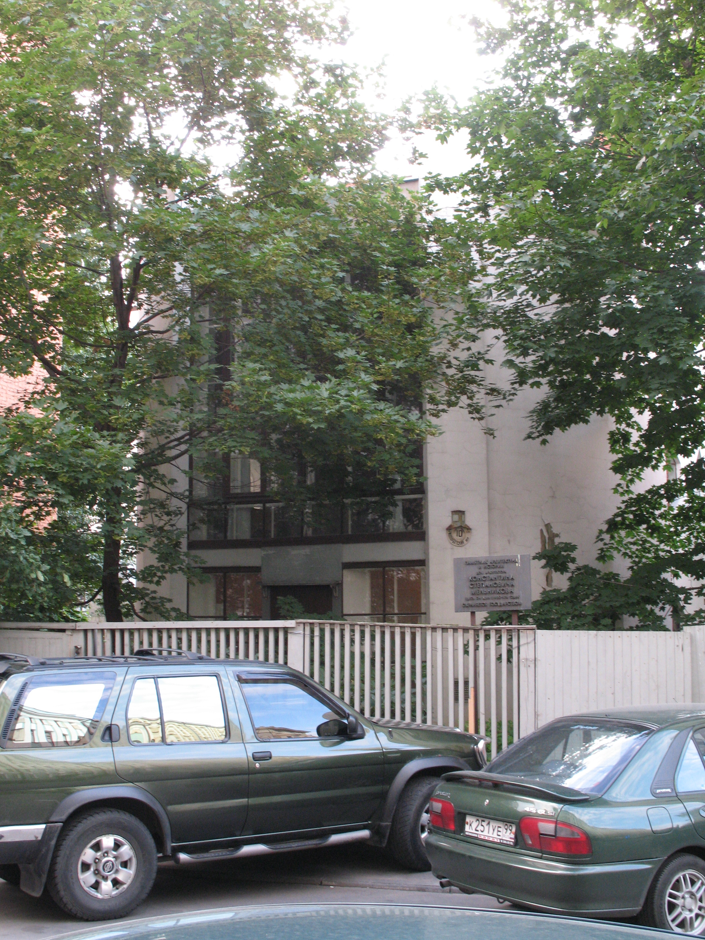 Krivoarbatskaya façade of the Melnikov house, Moscow